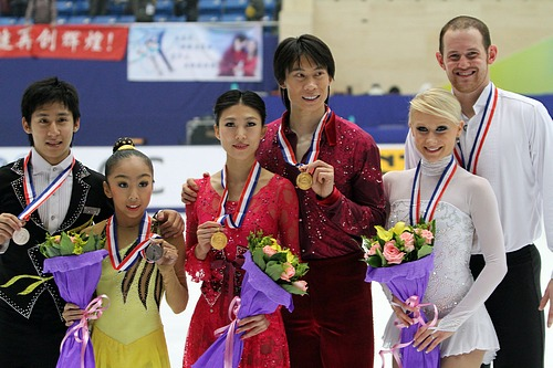 Sui Wenjing / Han Cong, Pang Qing / Tong Jian and Caitlin Yankowskas / John Coughlin at the Cup of China 2010